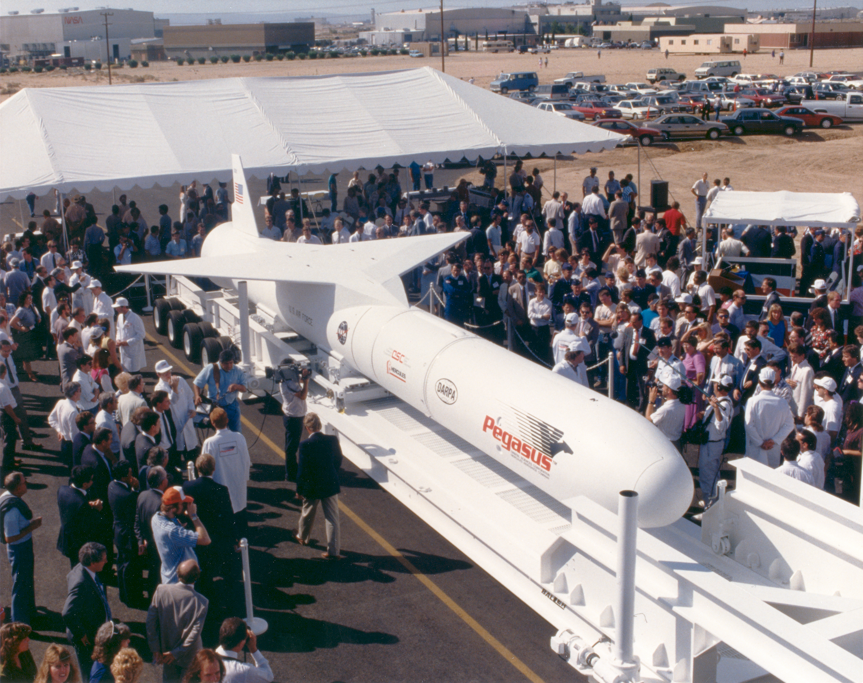 This image shows a Pegasus launch vehicle on the ground before its flight on a B-52. An air-launched, three stage, all solid-propellant, three-axis stabilized vehicle, the Pegasus can set a 400-1,000 pound payload into low-Earth orbit. For more information about Pegasus, please see Chapter 5 in Roger Launius and Dennis Jenkins' book To Reach the High Frontier published by The University Press of Kentucky in 2002.